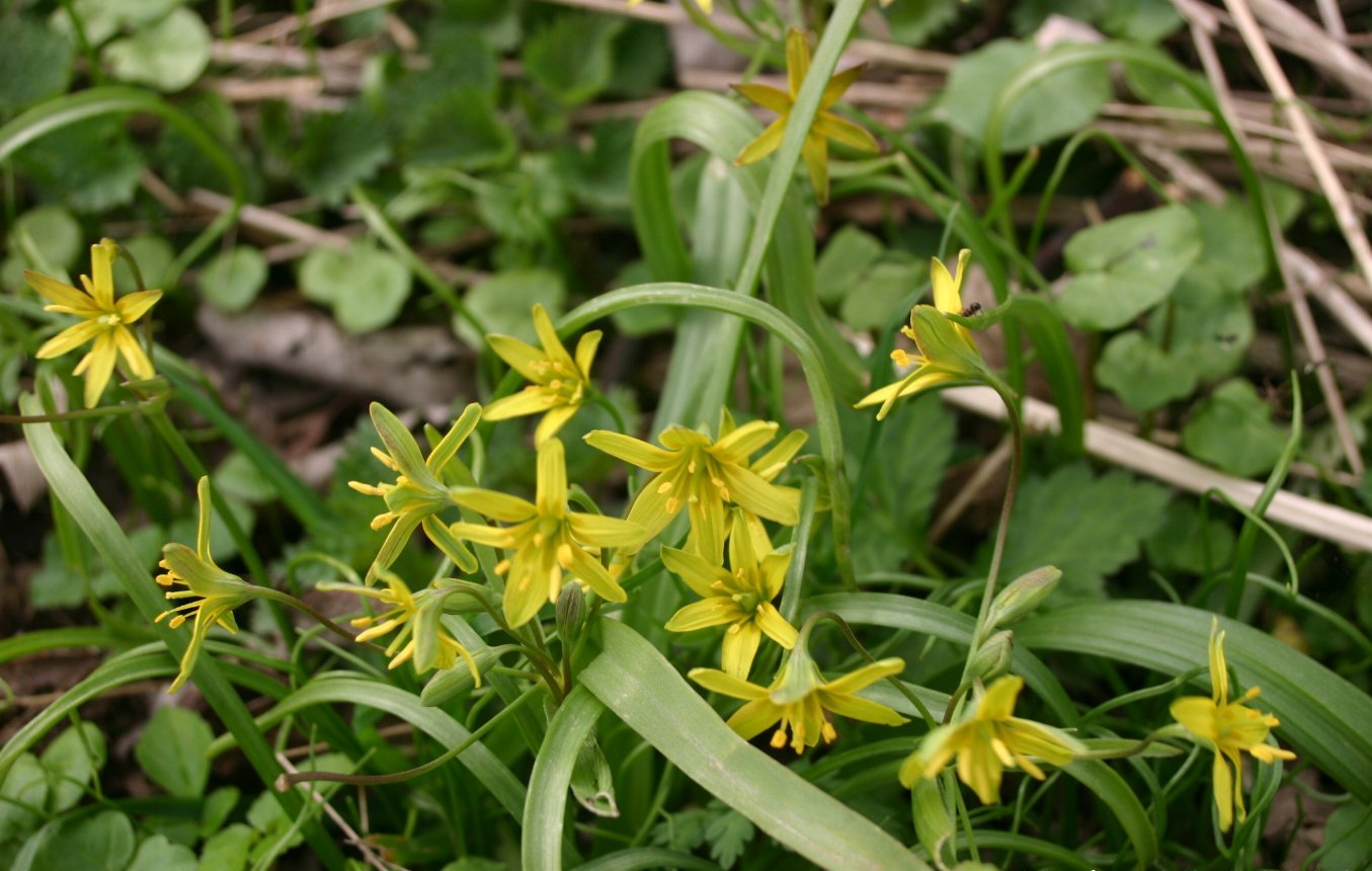 Gagea lutea: Flowers